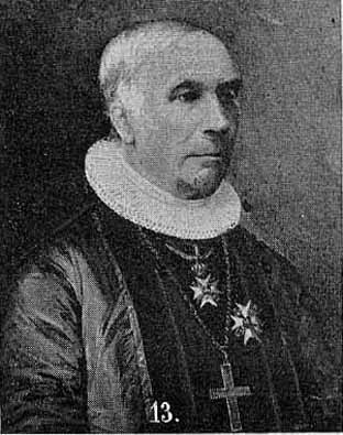 Jørgen Moe, Norwegian Bishop and author(1813-88)